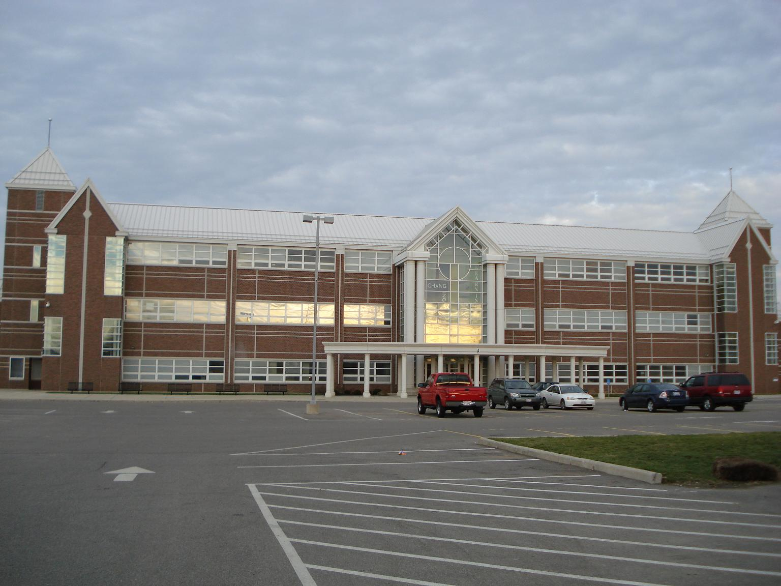 The front and main entrance of Garfield Heights High School in Garfield Heights, Ohio, seen in December 2006. Photo taken by Andrew DeFratis, 14 December 2006. - A.J. 22:46, 14 December 2006 (UTC)